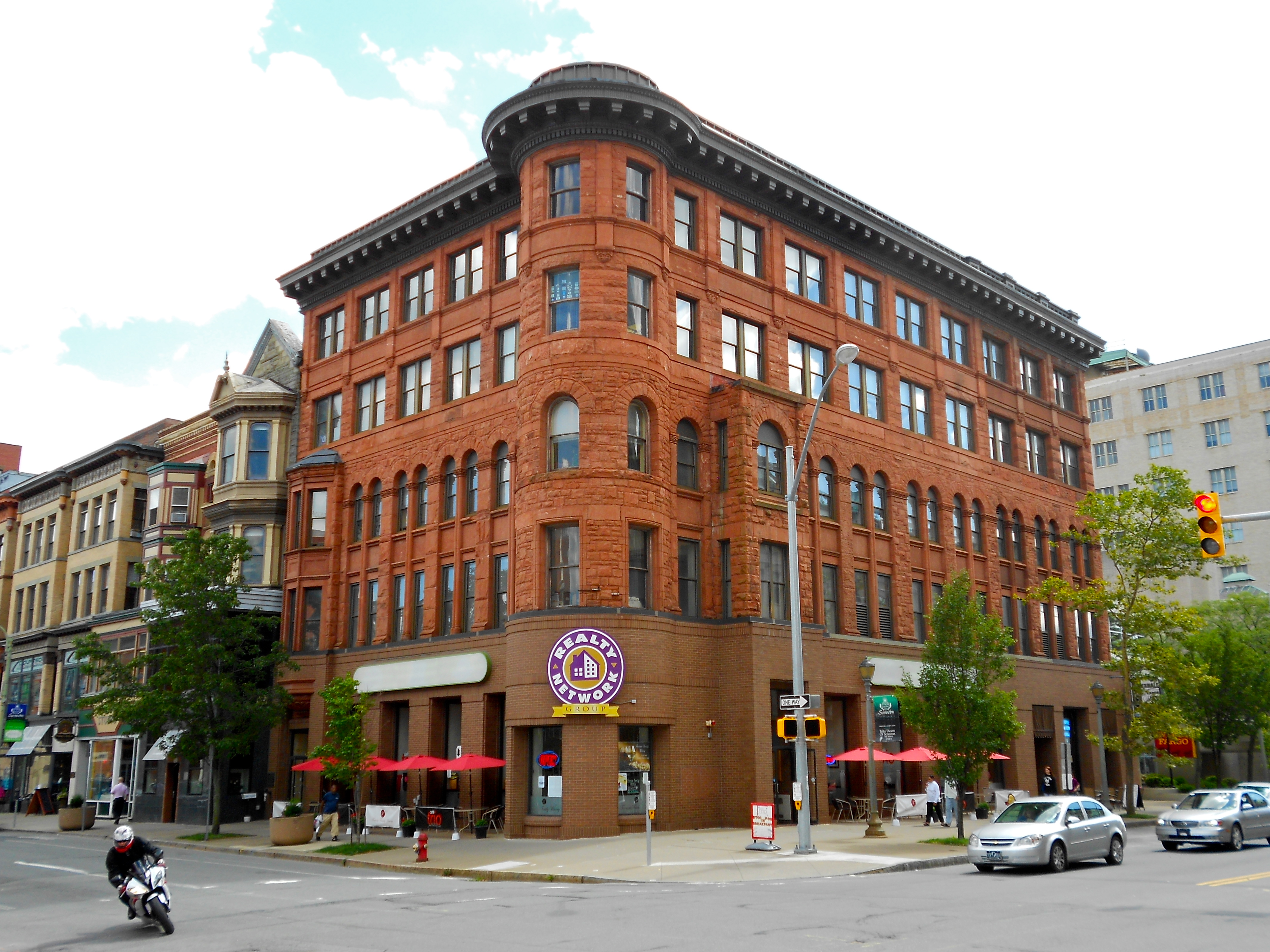 Dime Bank Building, listed on the NRHP on July 14, 1978, at the corner of Wyoming Avenue and Spruce Street (400 Wyoming), Scranton, Lackawanna County, Pennsylvania.